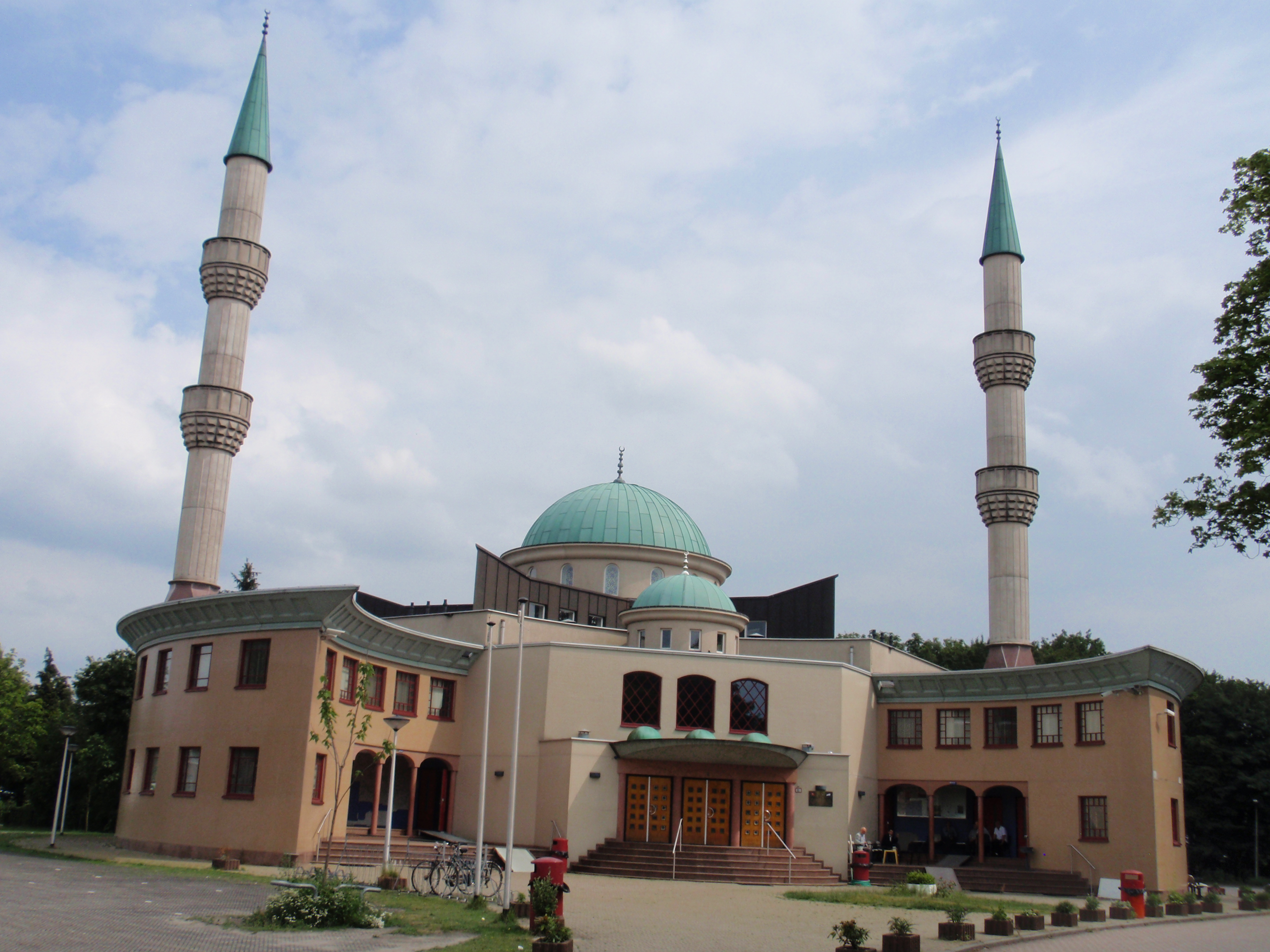 Süleymaniye Mosuq Tilburg